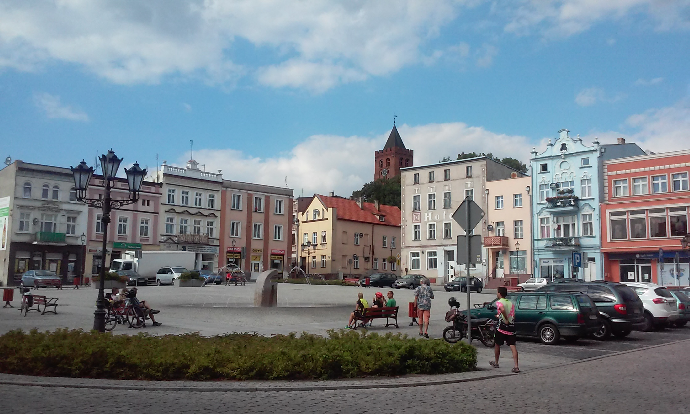 Nowe, Kuyavian-Pomeranian Voivodeship, Poland